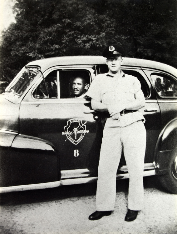 old photograph of police car in Rio de Janeiro - 1948